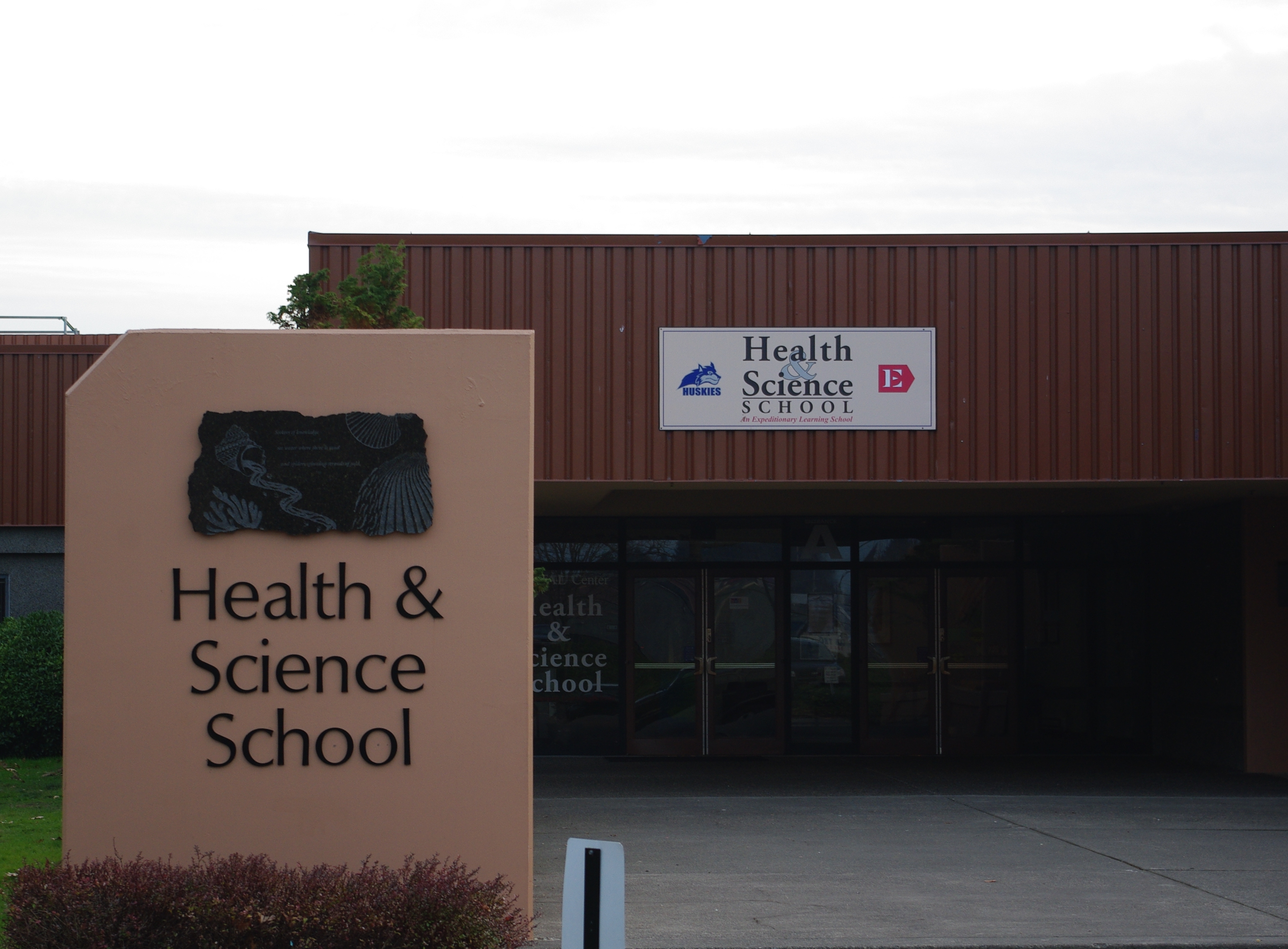 Beaverton Health & Science School, part of the Beaverton School District, but in the city of Hillsboro, Oregon (Beaverton mailing address).